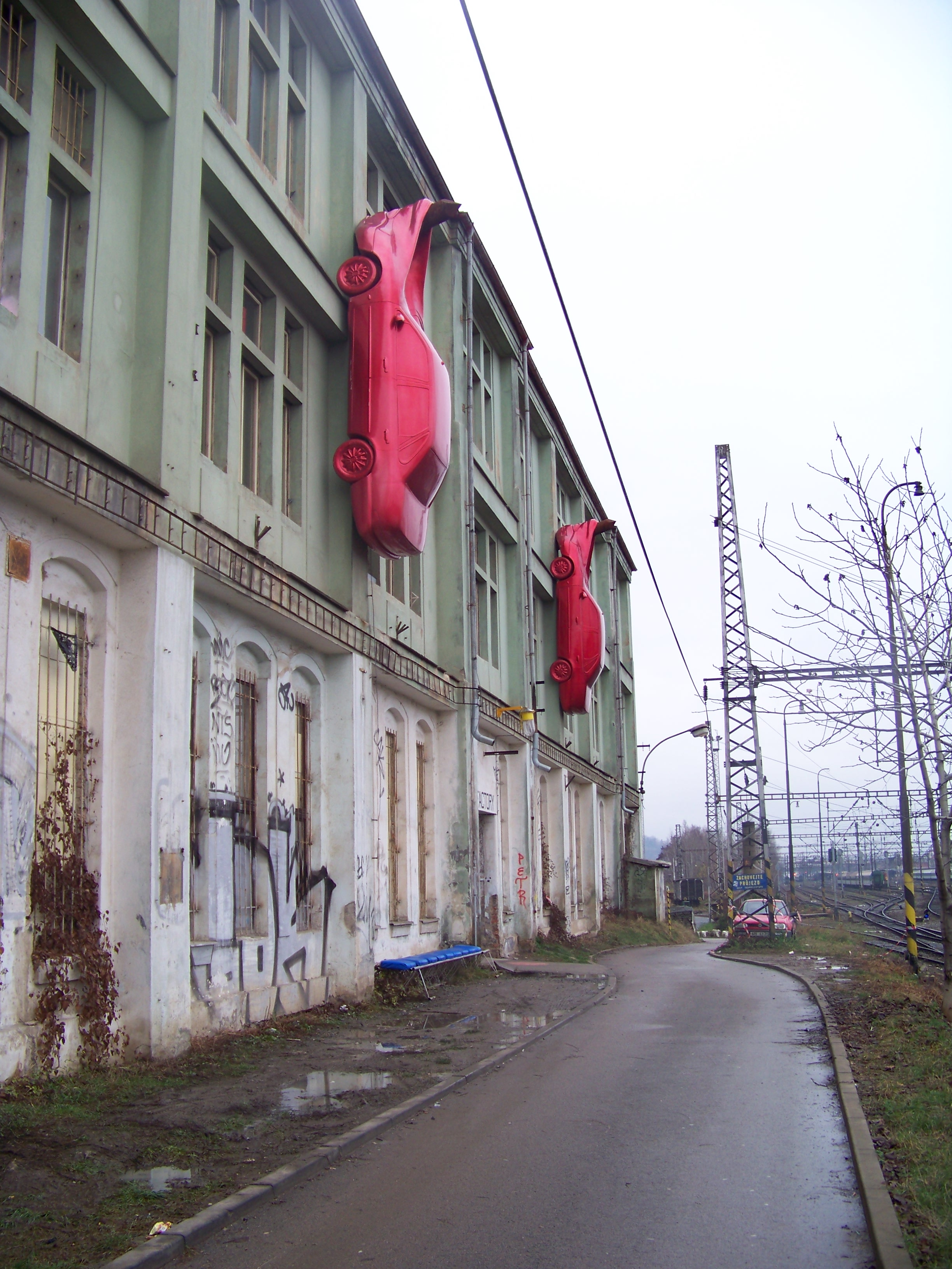 Prague, Smíchov, the Czech Republic. MeetFactory, International center of contemporary art (founded by David Černý, David Koller and Alice Nellis). - Google Maps - Google Earth